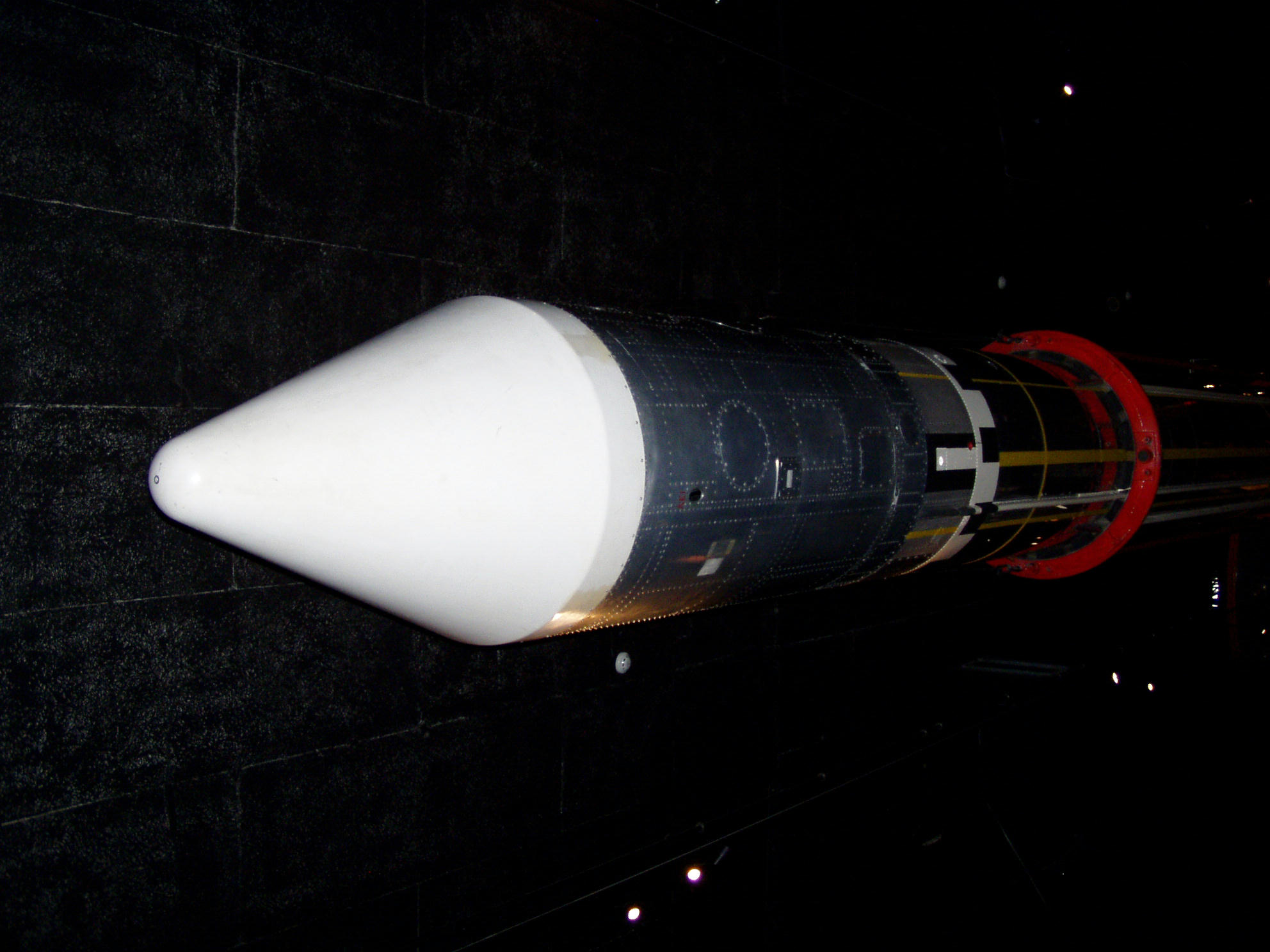 Black Knight nose cone at World Museum Liverpool